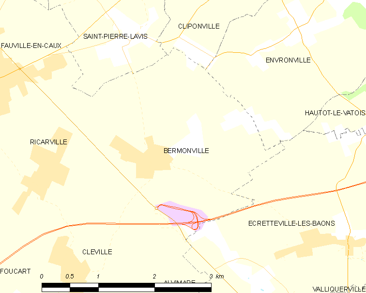 Map of French municipality Bermonville